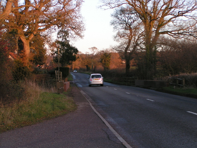 Old A30, the Fosse Way Roman road, heading east